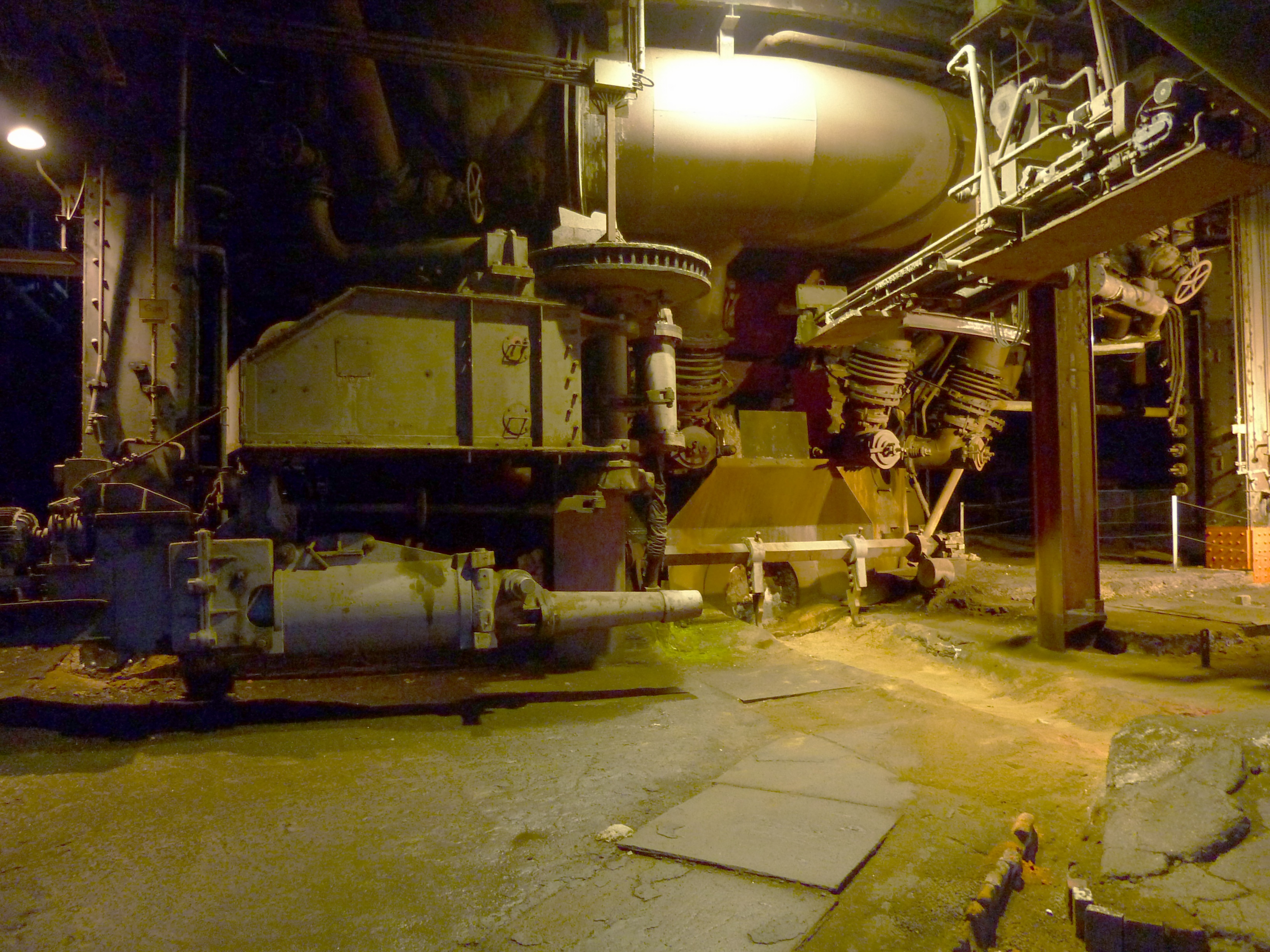 Cast floor of a blast furnace. In the foreground, the clay gun. Above the main runner, the drilling machine. Völklingen Ironworks, Germany.